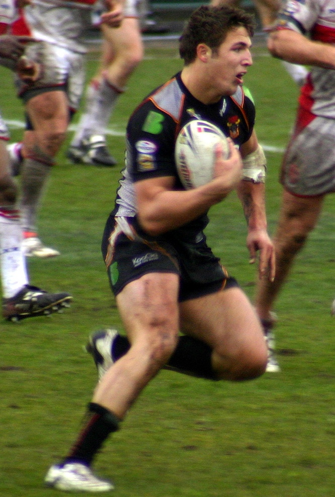 Sam Burgess